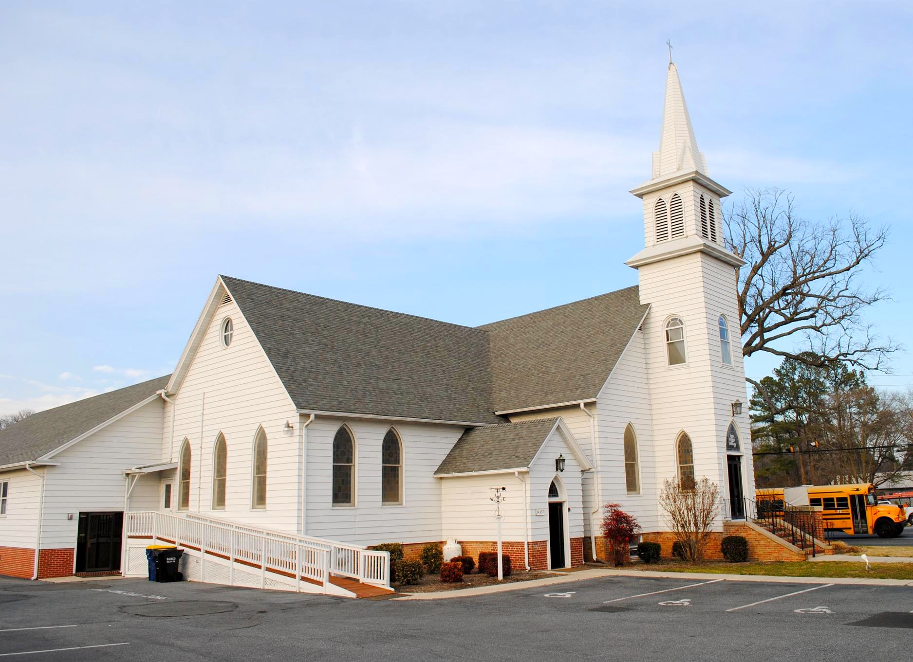 Side angle view of the church.